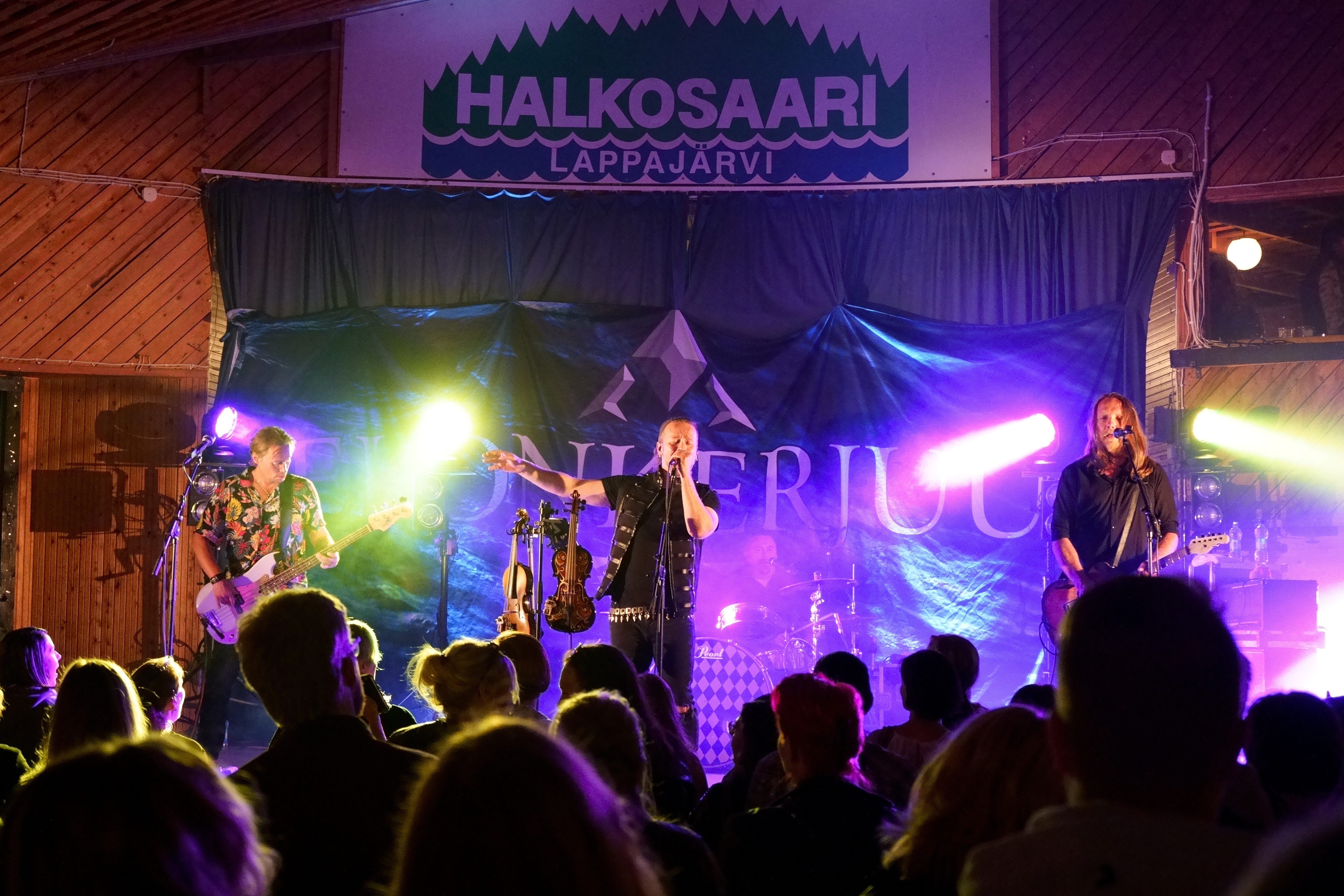 Elonkerjuu band.